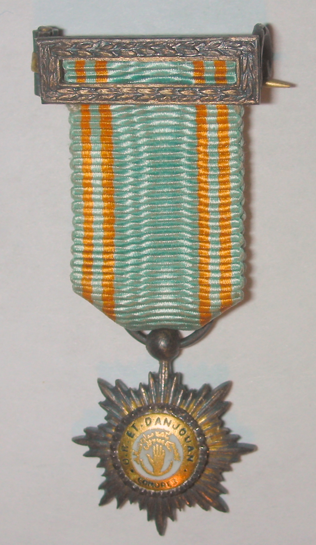 Ordre de l'Étoile d'Anjouan (Order of the Star of Anjouan)